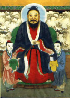 Luo Zu - Chinese god of beggars and barbers